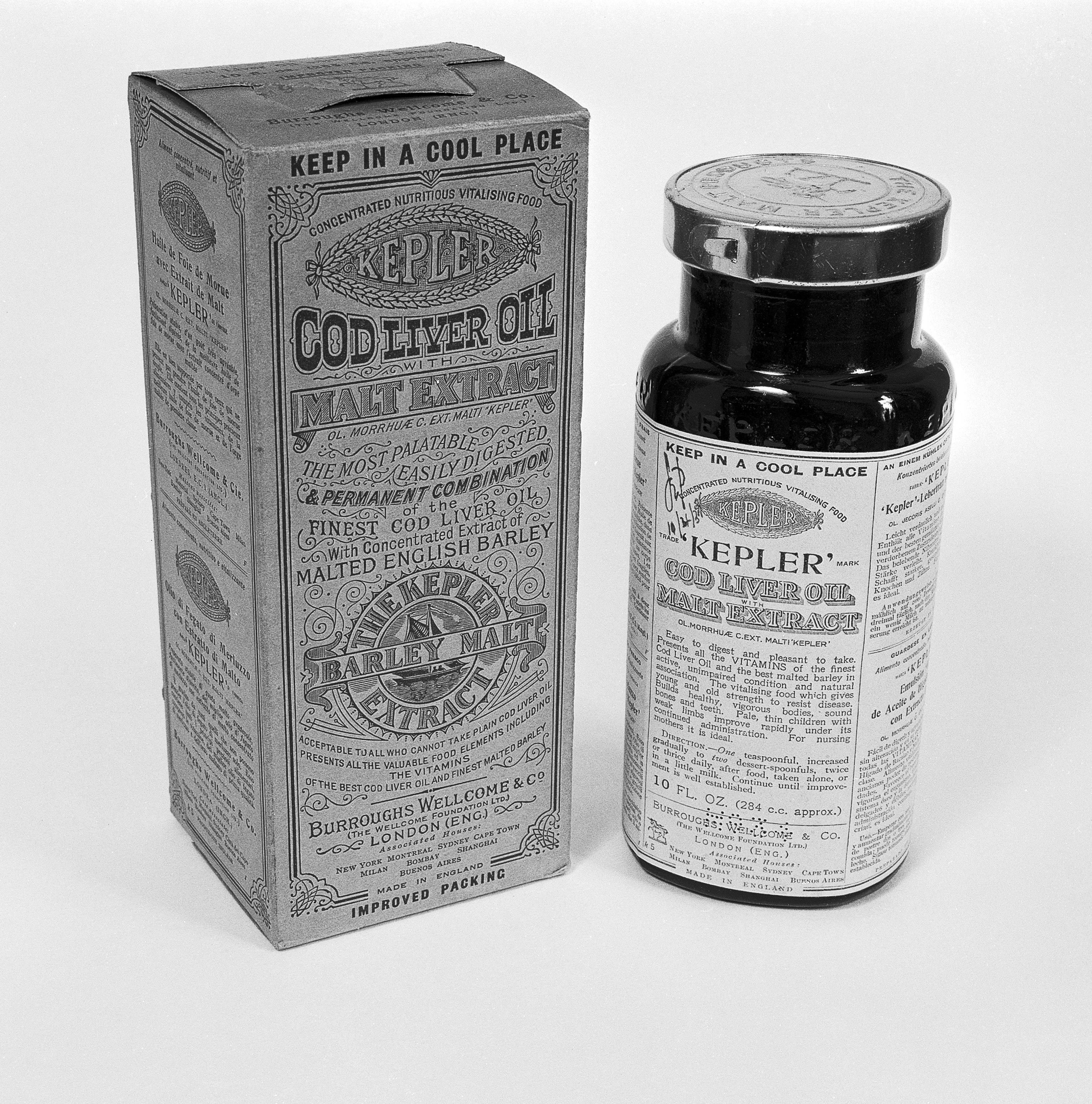 Bottle of Kepler Cod Liver Oil with Malt extract, and box to contain bottle; manufactured by Burroughs Wellcome & Co, n.d. Wellcome Images Keywords: Burroughs Wellcome & Co